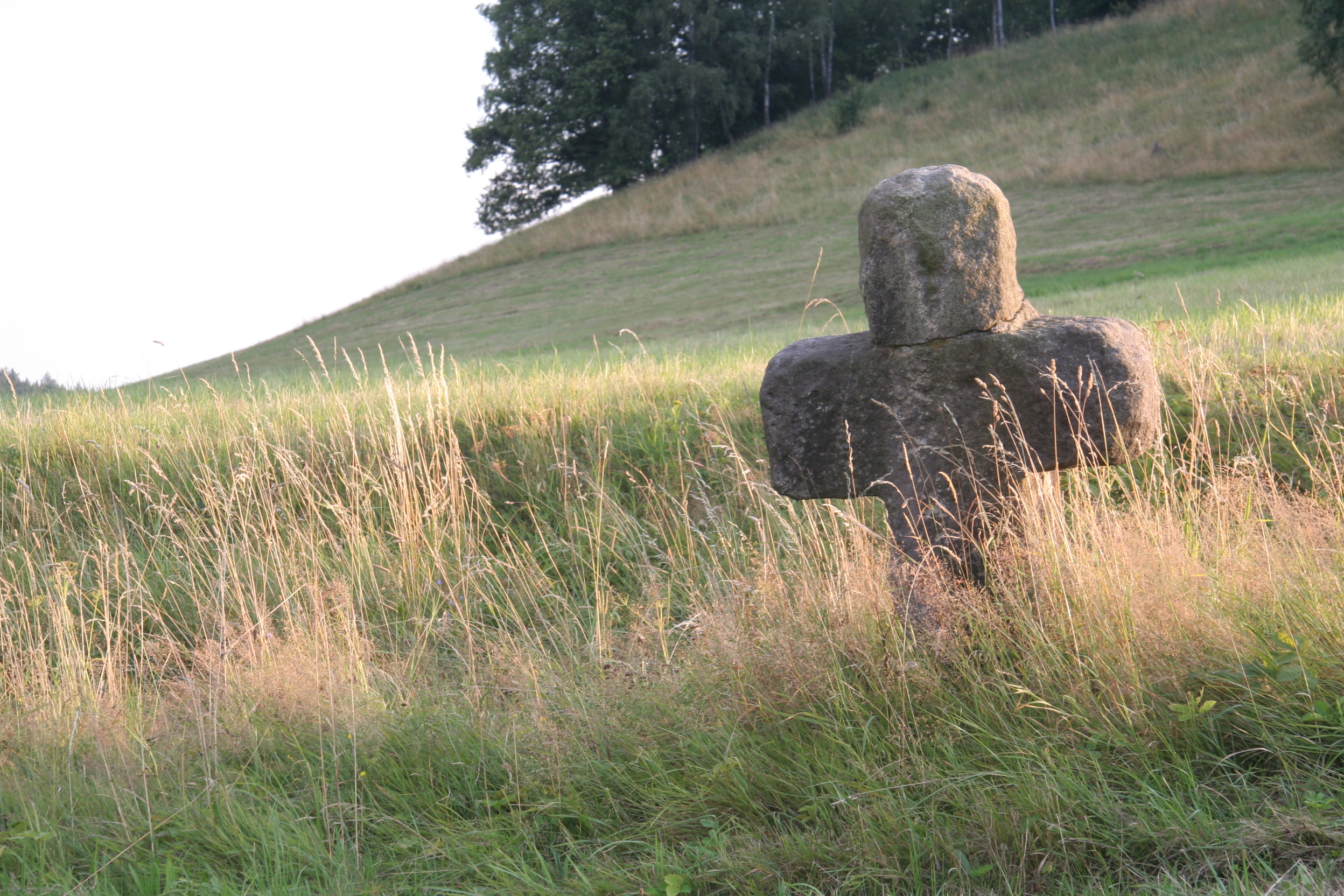 The penitence (conciliation) cross in Zdislava (Schönbach)